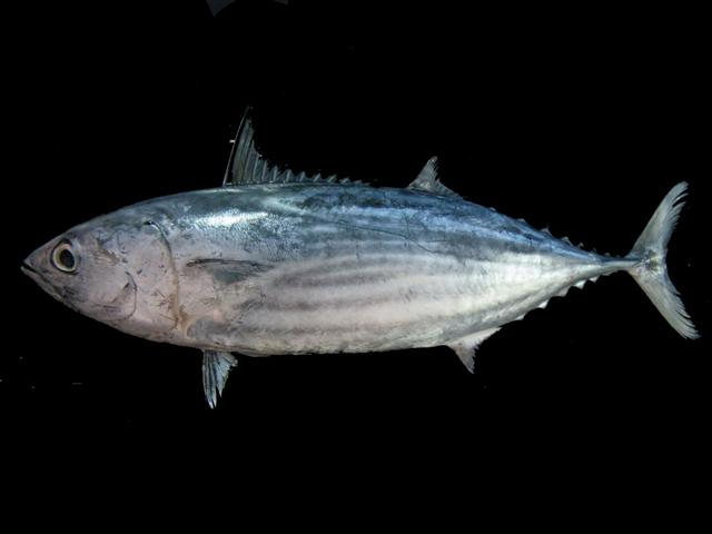 Katsuwonus pelamis collected in Kampuan market, Suksamran, Ranong , southern Thailand.